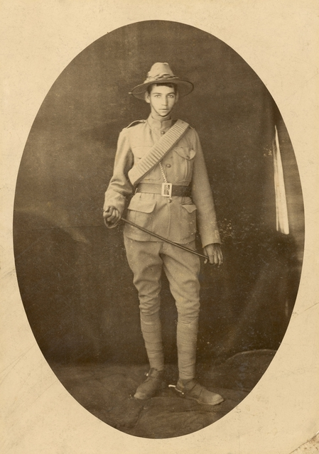 Studio portrait of Private William Thomas Dartnell, a teenage soldier in the Victorian Mounted Rifles, 1900. He was later to win the Victoria Cross as a lieutenant in the First World War.